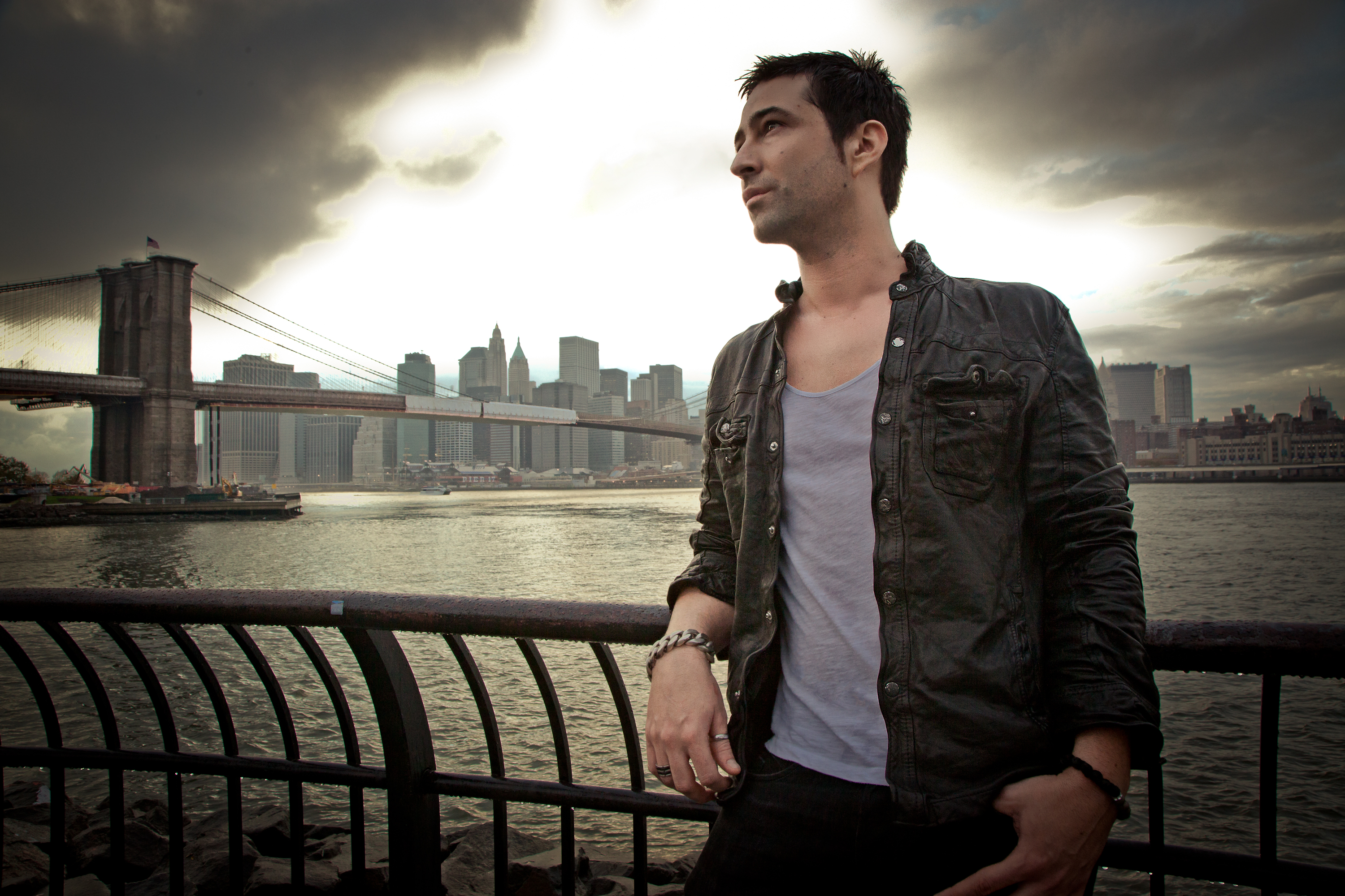 Sandy Vee